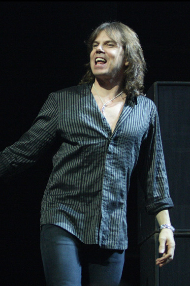 Joey Tempest in concert.